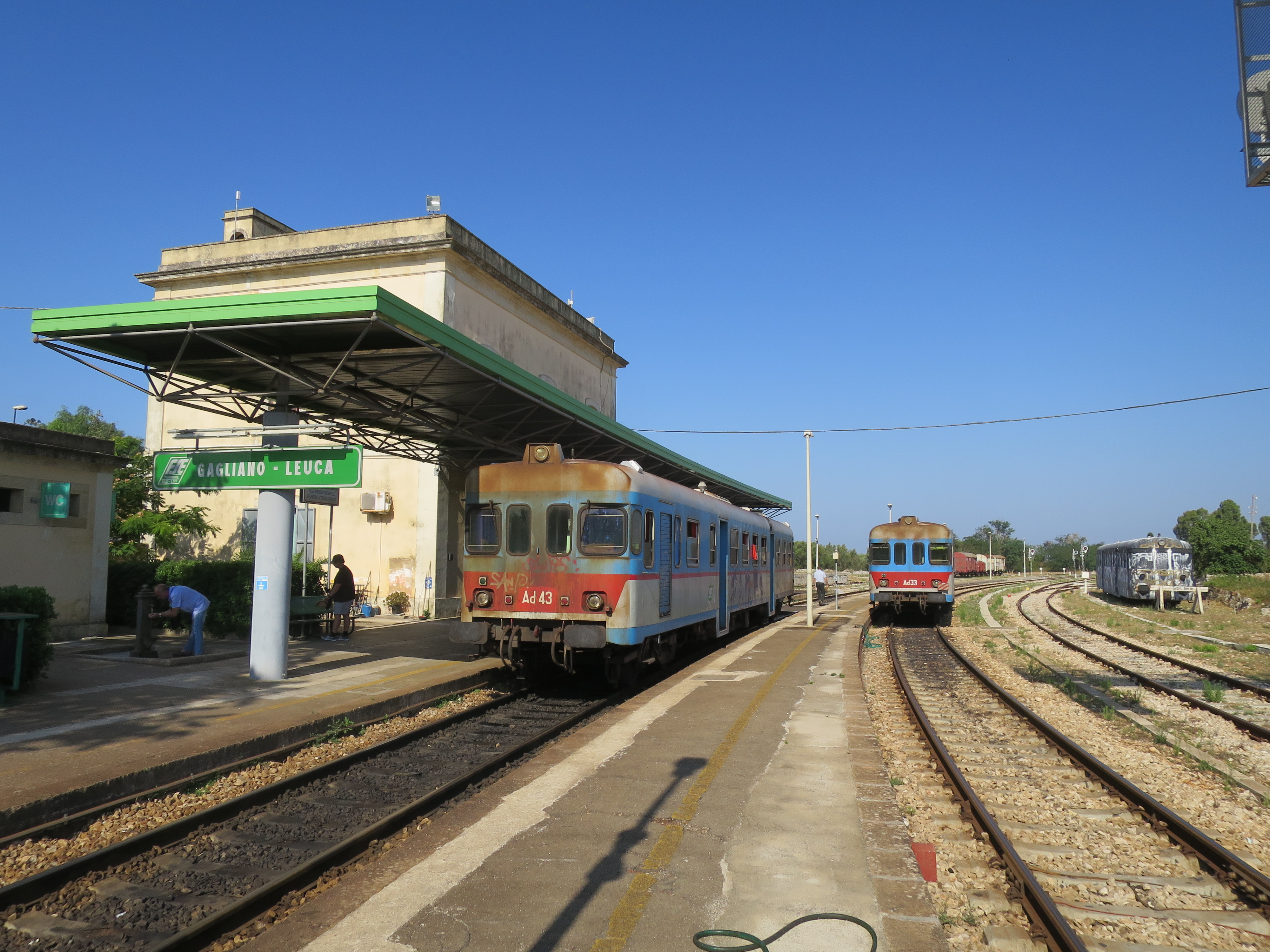 Train Station of Gagliano-Leuca